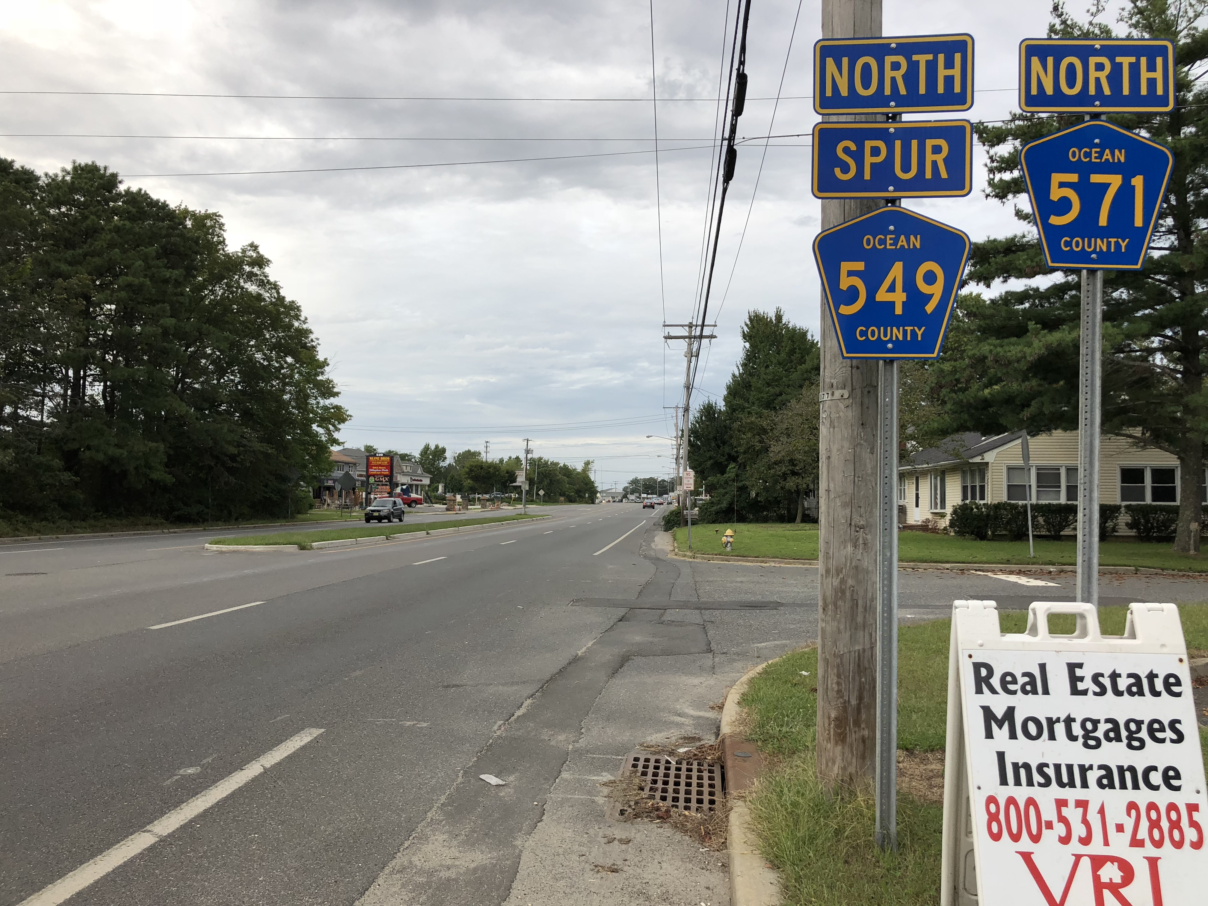 View north along Ocean County Route 571 and Ocean County Route 549 Spur (Fischer Boulevard) at Victor Avenue in Toms River Township, Ocean County, New Jersey